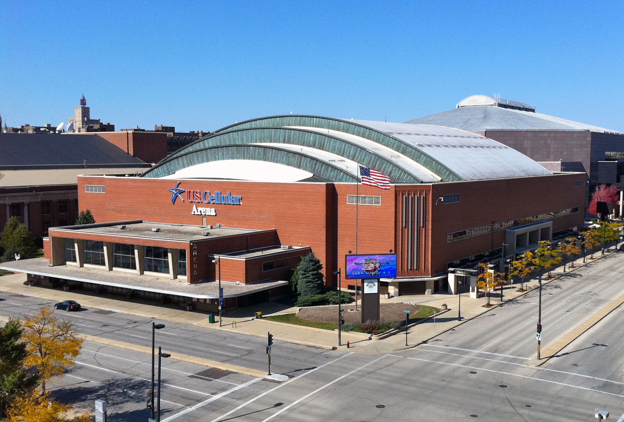 The U.S. Cellular Arena in Milwaukee, Wisconsin, seen from the 8th level of a parking deck kitty corner from it.